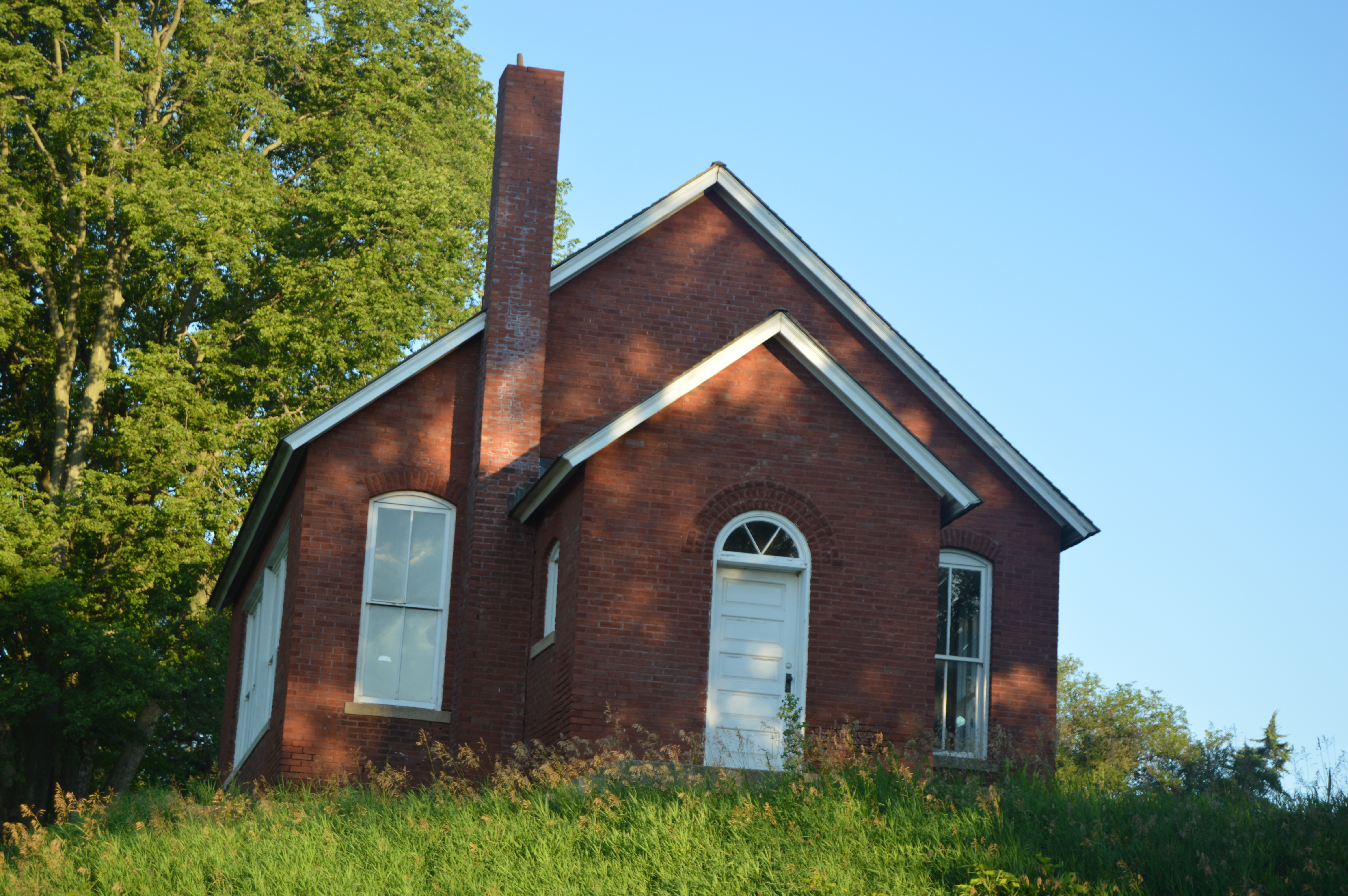 Front and southern side of the East Waterford School, located on the western side of Dickson Mounds Road at the Prairie Road intersection in Waterford Township, Fulton County, Illinois, United States. Built in 1907, it is listed on the National Register of Historic Places.